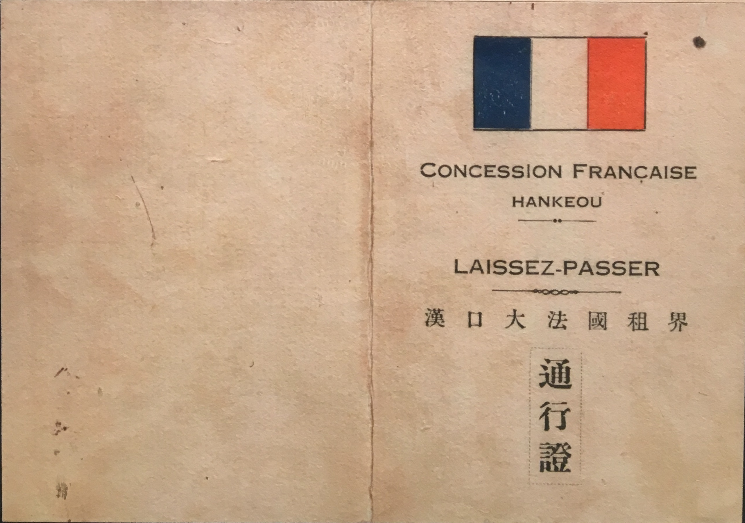 Consession Francaise Hankeou Laissez-Passer Cover